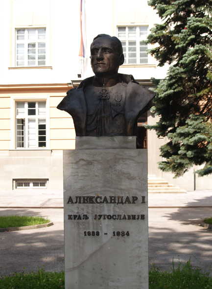 Bust of King Aleksandar I Karadjordjevic in Archive of Yugoslavia